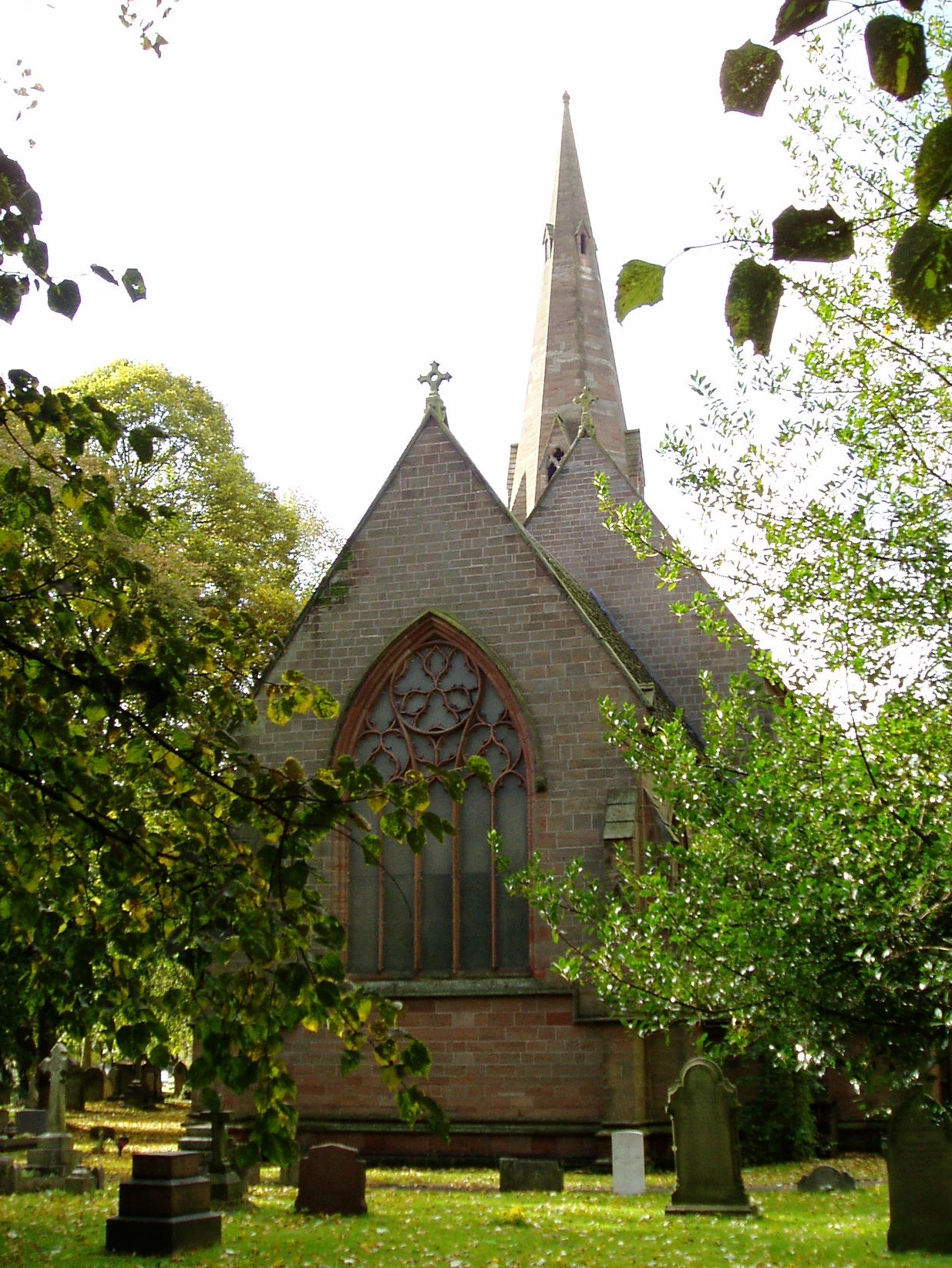 Holy Trinity Church, Heath Town, Wolverhampton, UK, from the east.